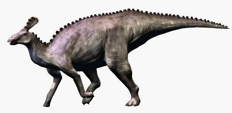 Tsintaosaurus spinorhinus, a hadrosaurid from Late Cretaceous (Campanian) Shandong, China. Previously depicted with a unicorn-like crest, recent reanalysis of the fossil skull indicates it was actually part of a larger crest. Digital.